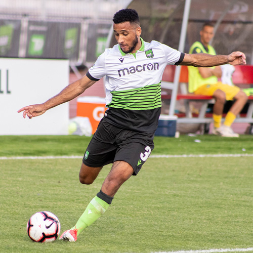 Morey Doner swings in a cross for York9 FC against FC Edmonton on June 19, 2019.